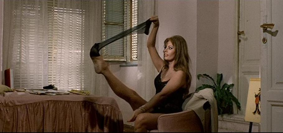 Yesterday, Today and Tomorrow (1963)